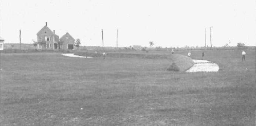 Portland Golf Links, USA, Cop Bunkers on Fairways 5 (in the foreground, running right to left) and 1 (in the background, running left to right)